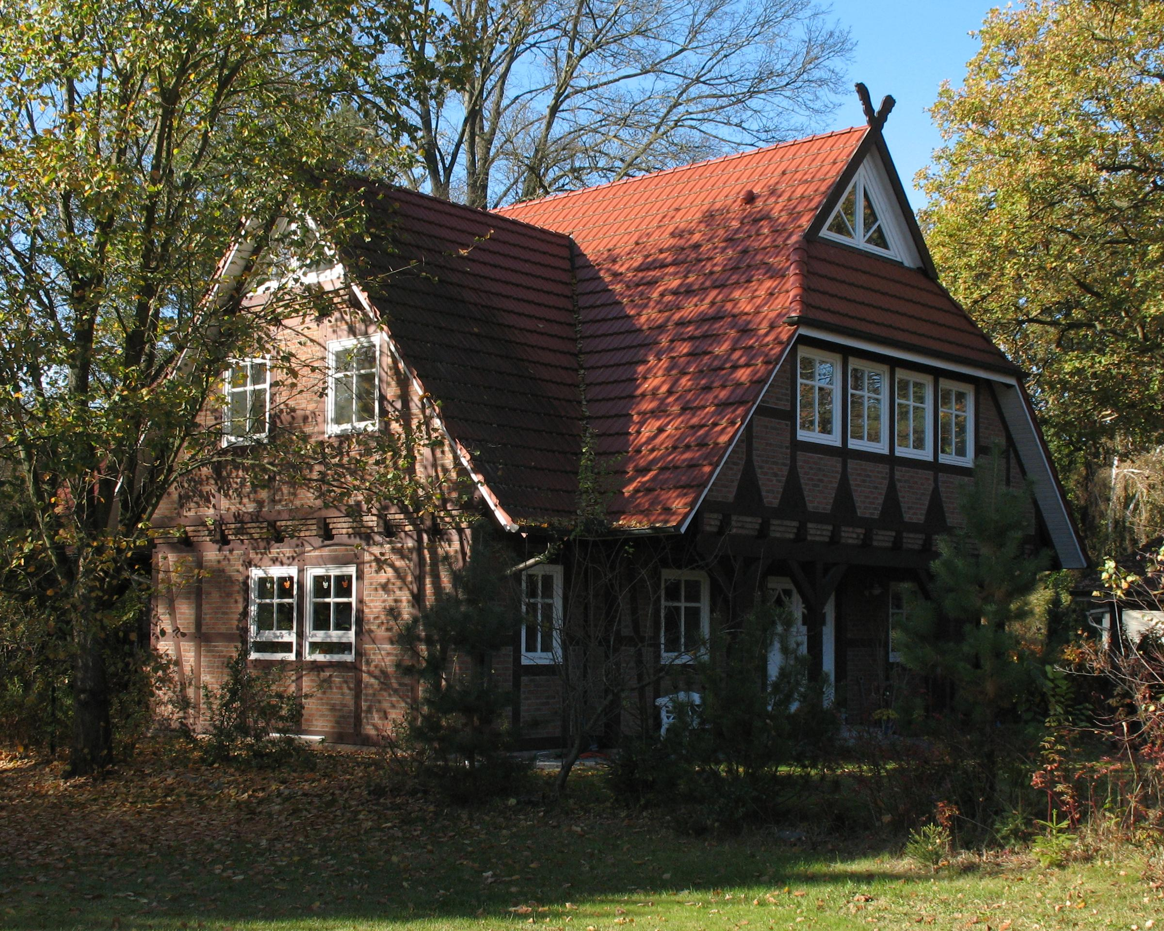 Alcove house in Hohen Neuendorf in Brandenburg, Germany